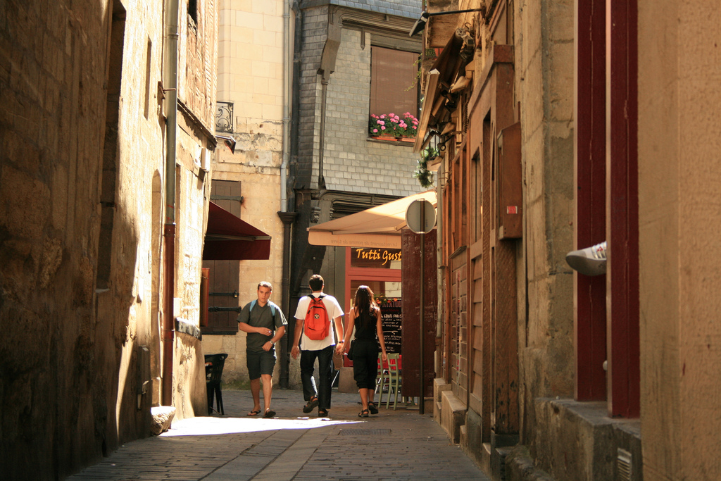 Tours, France